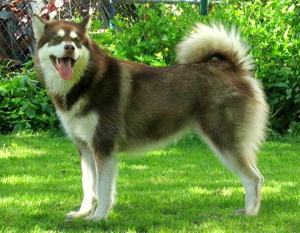 Red-White Alaskan Malamute female. JCh.Pl Kotzebue's Kringmerk FANTASMAGORIA "Gina"